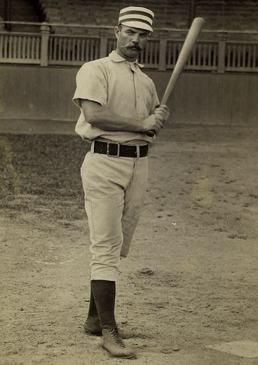 Photograph of George Wood of the Philadelphia Quakers